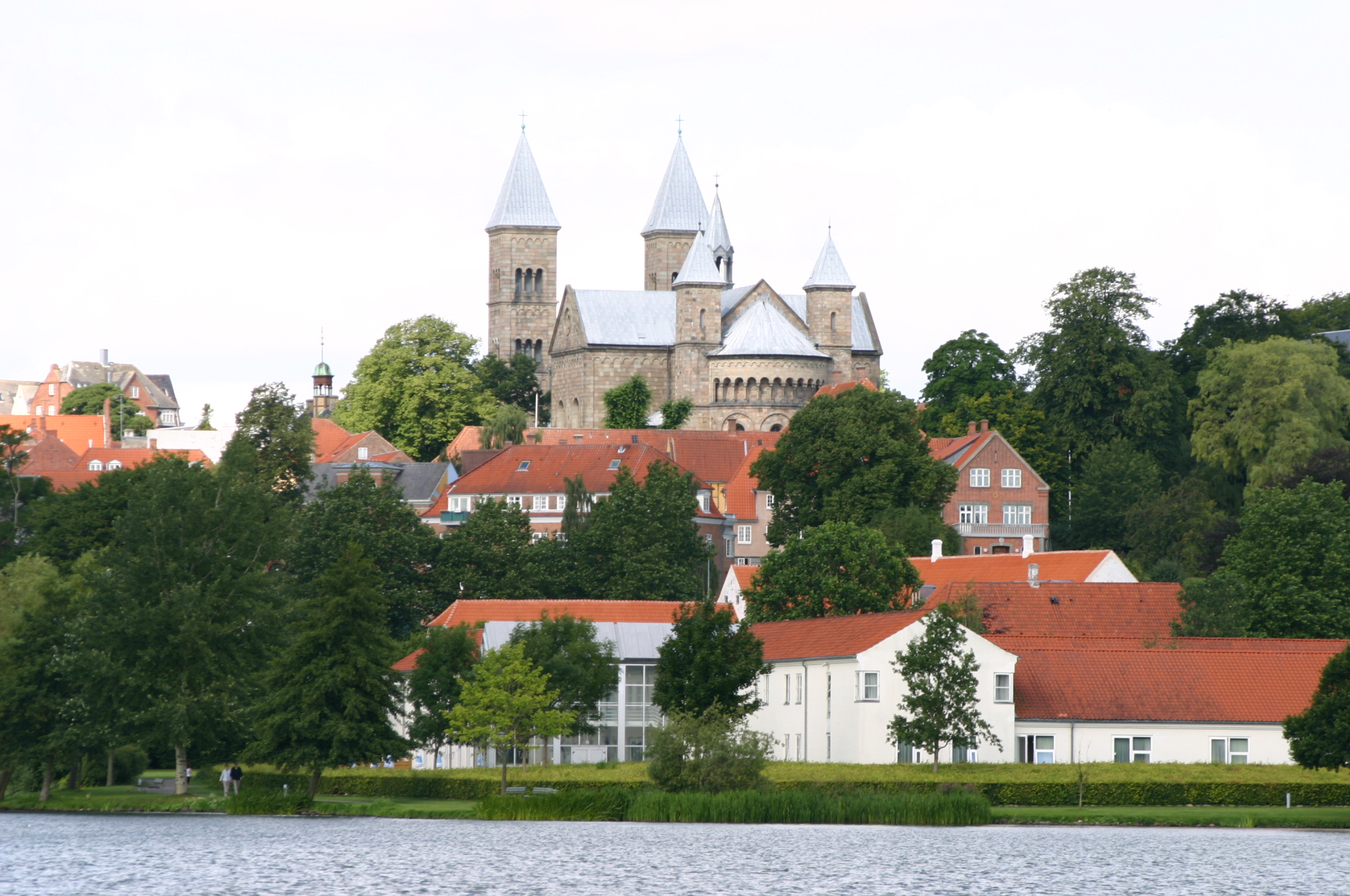 View from the east side of the Viborg Lake towards the Viborg Cathedral